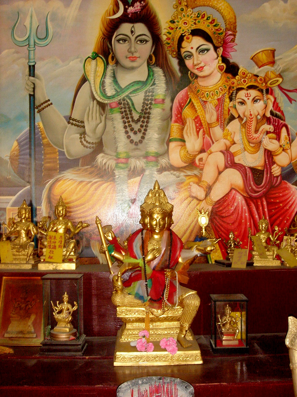 Hindu and Buddhist deity in Changhua Taiwan temple